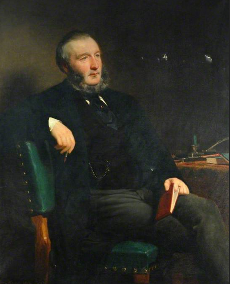 Edmund Backhouse (1824-1906)tenant of Middleton Lodge